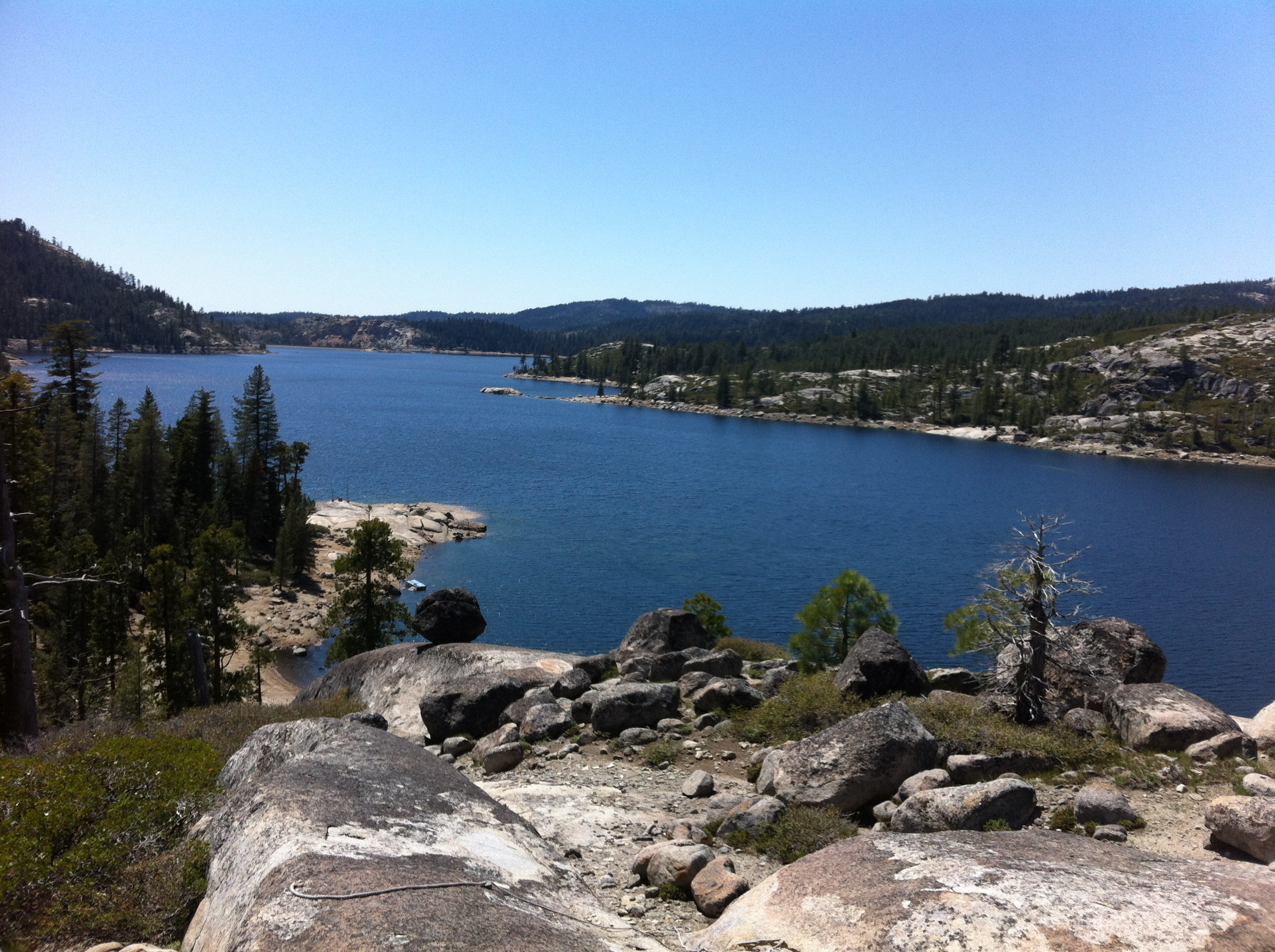 The reservoir created by the Lower Bear River Reservoir Dam (not pictured). This photo was taken from the south shore, facing west.